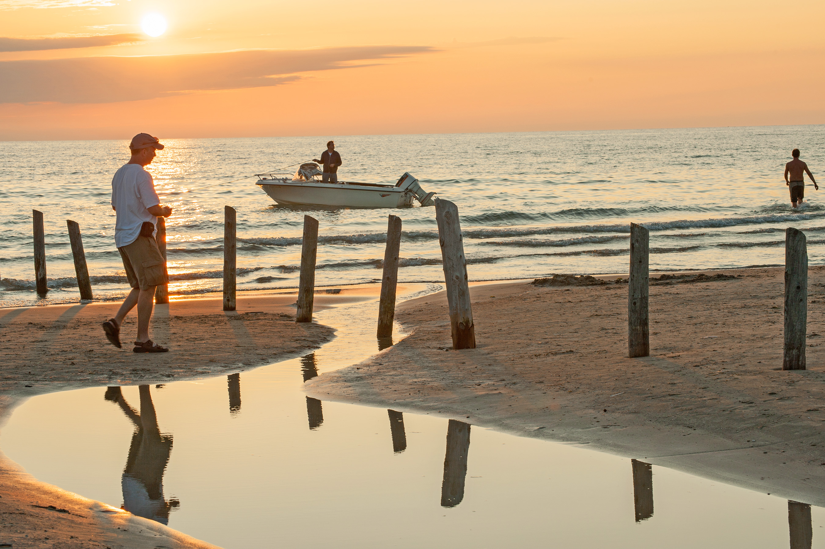 Sauble Beach, Ontario, Sunset